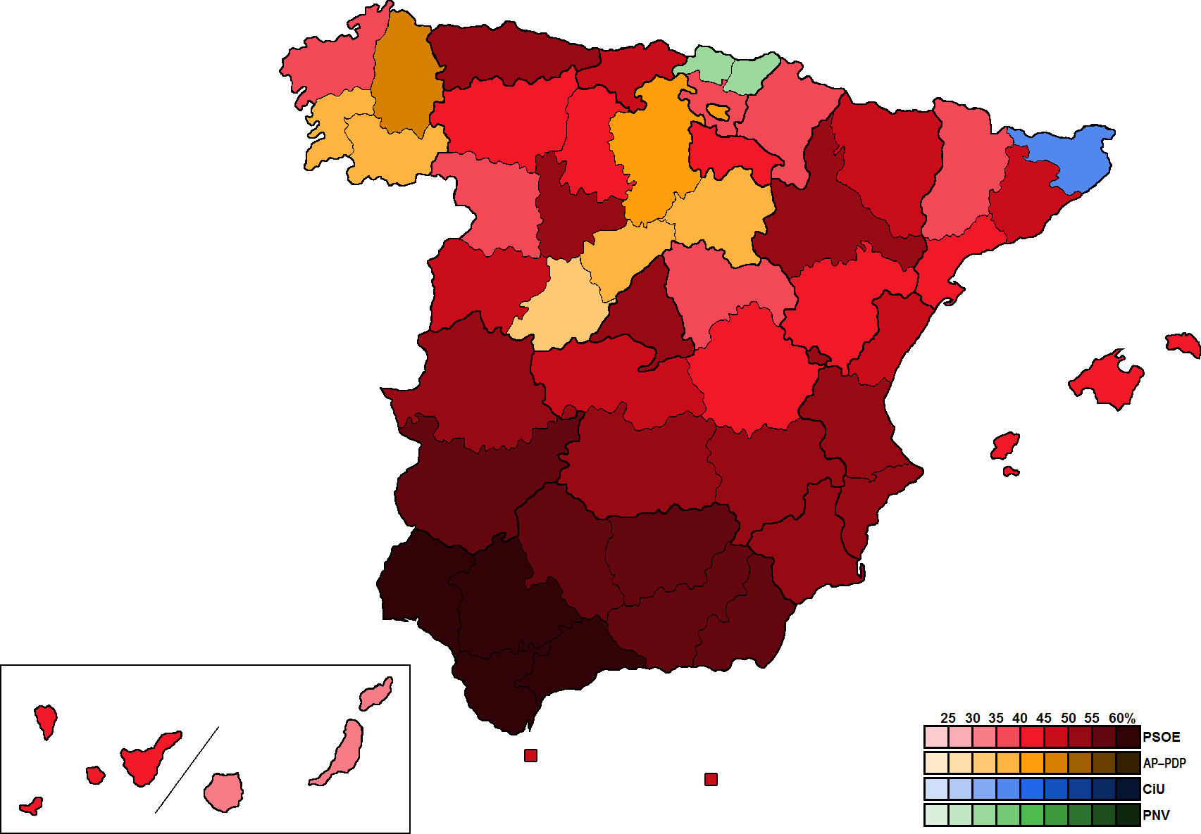 Provincial results for the 1982 Spanish general election.